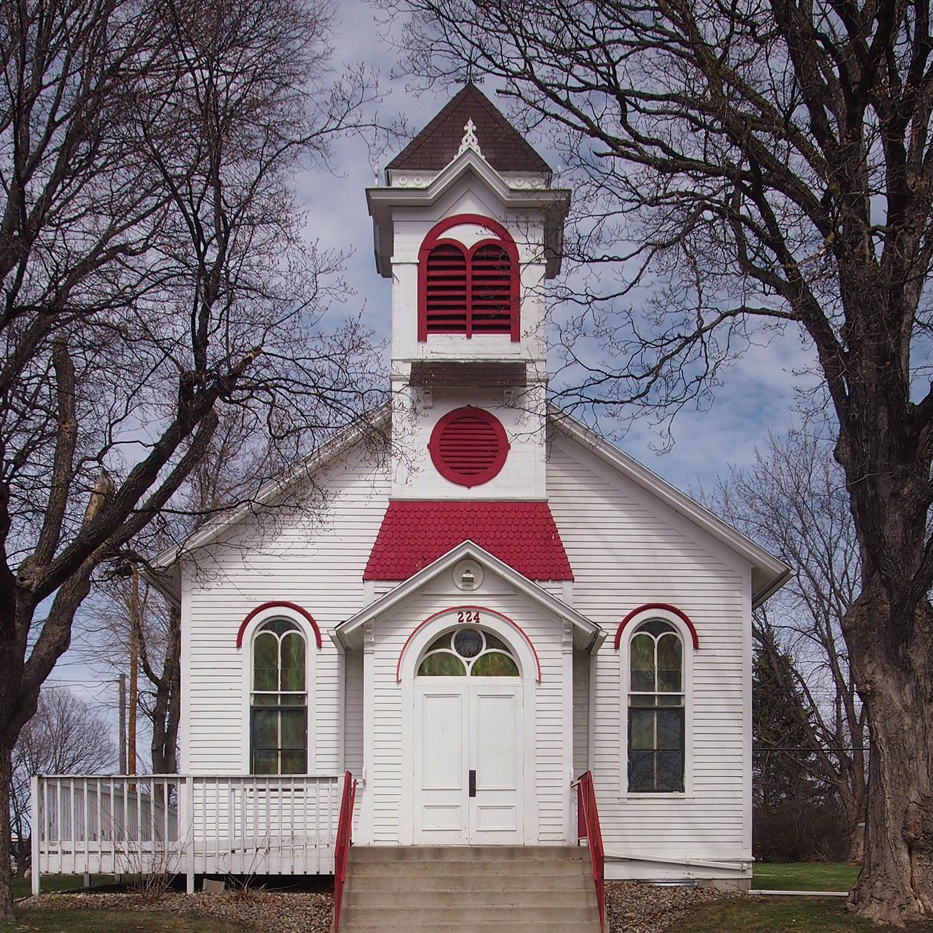 Norwood Methodist Episcopal Church, 224 Hill St, Norwood Young America, Minnesota, USA. Viewed from the south-southwest.